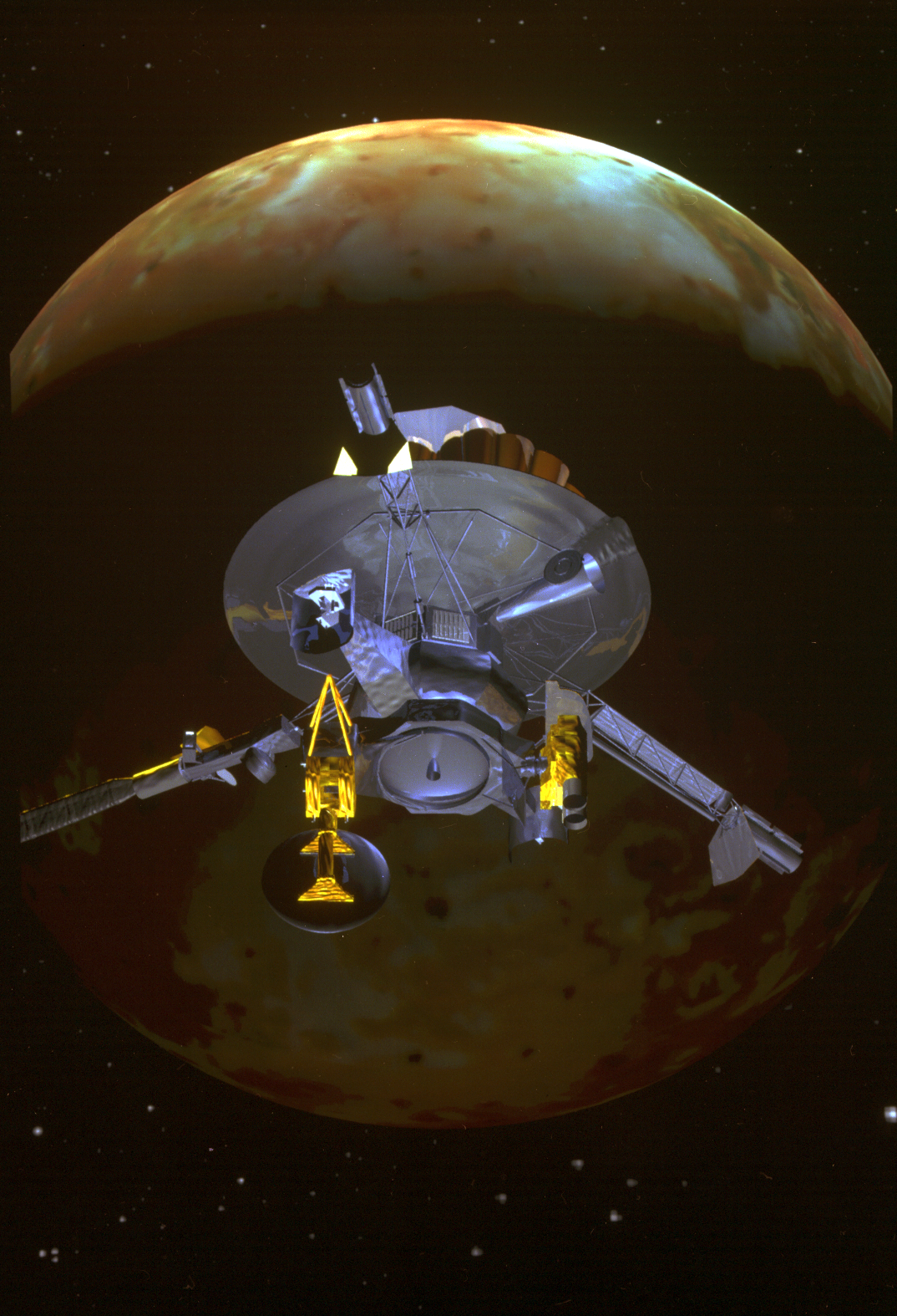 NASA's Galileo spacecraft has found Jupiter's volcanic moon Io to have a huge iron core that takes up half its diameter. The spacecraft's 899 kilometer (559-mile) flyby of Io on December 7, 1995 is depicted in this computer graphics painting. Galileo also detected a large "hole" in Jupiter's magnetic field near Io, leading to speculation about whether Io possesses its own magnetic field. If so, it would be the first planetary moon known to have one. The mission is conducted for NASA by JPL.